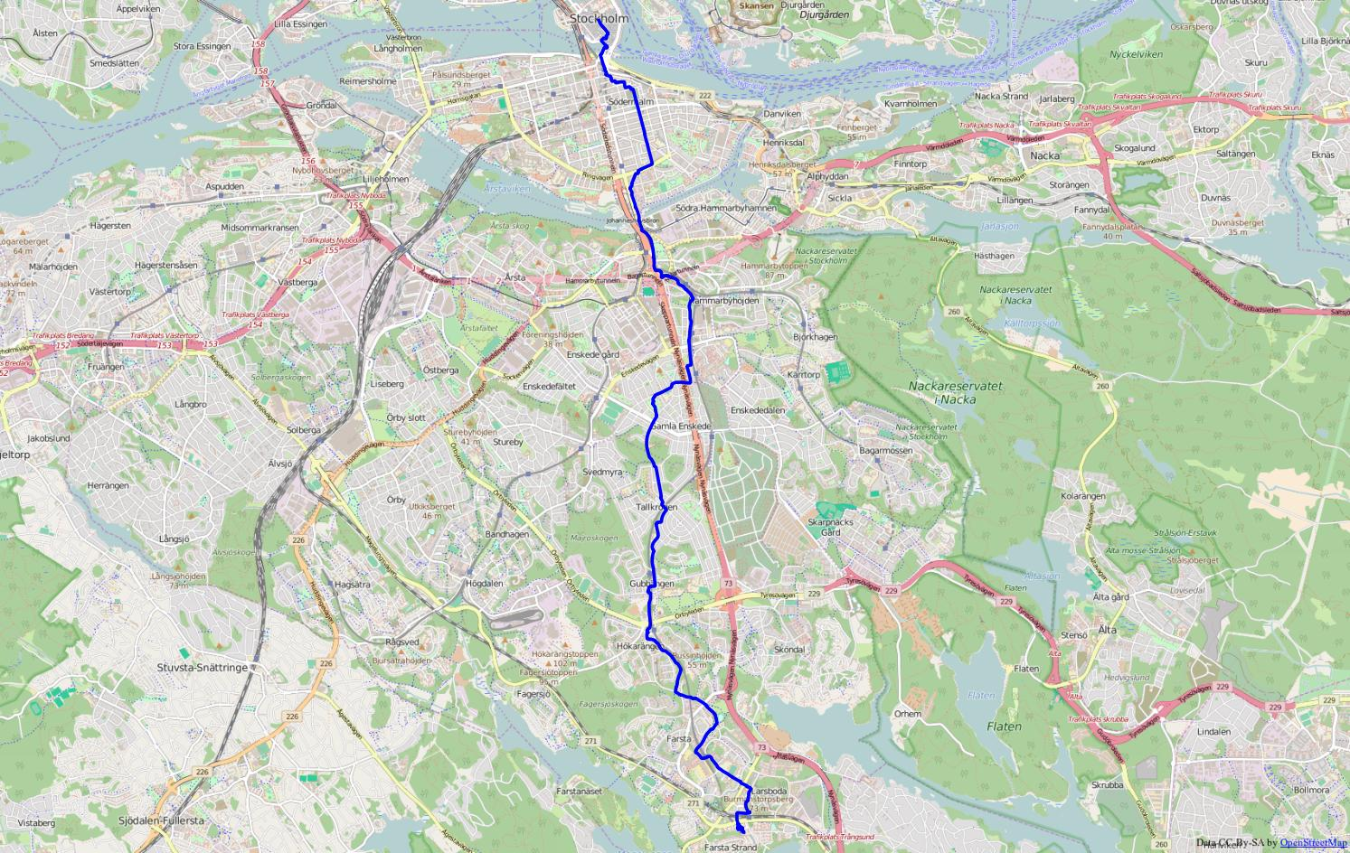 The Farstastråket hiking trail in Stockholm, Sweden.